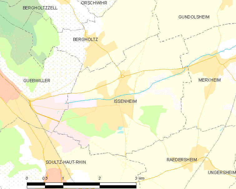 Map of French municipality